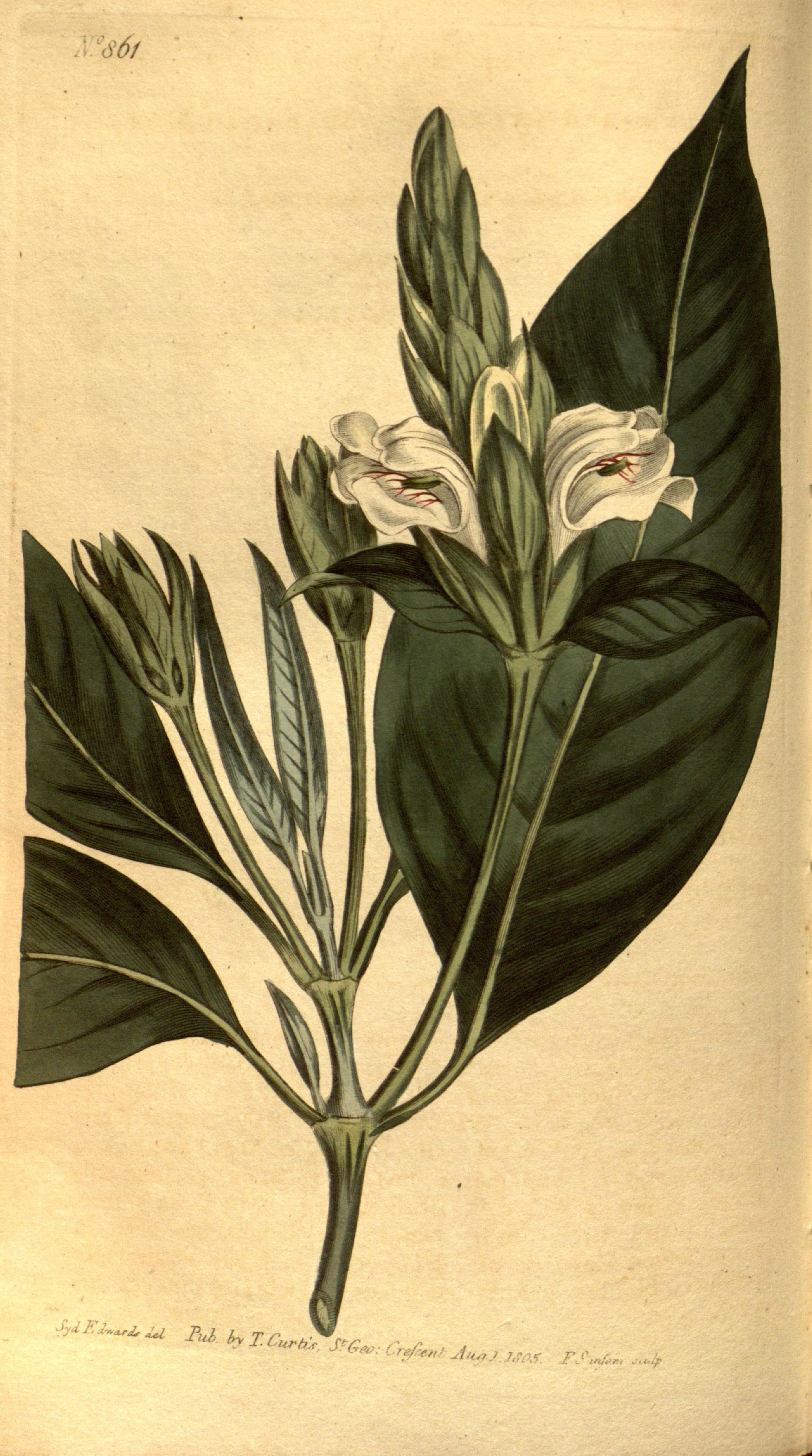 \s6f '1"U Ful hyT.CurtC?#